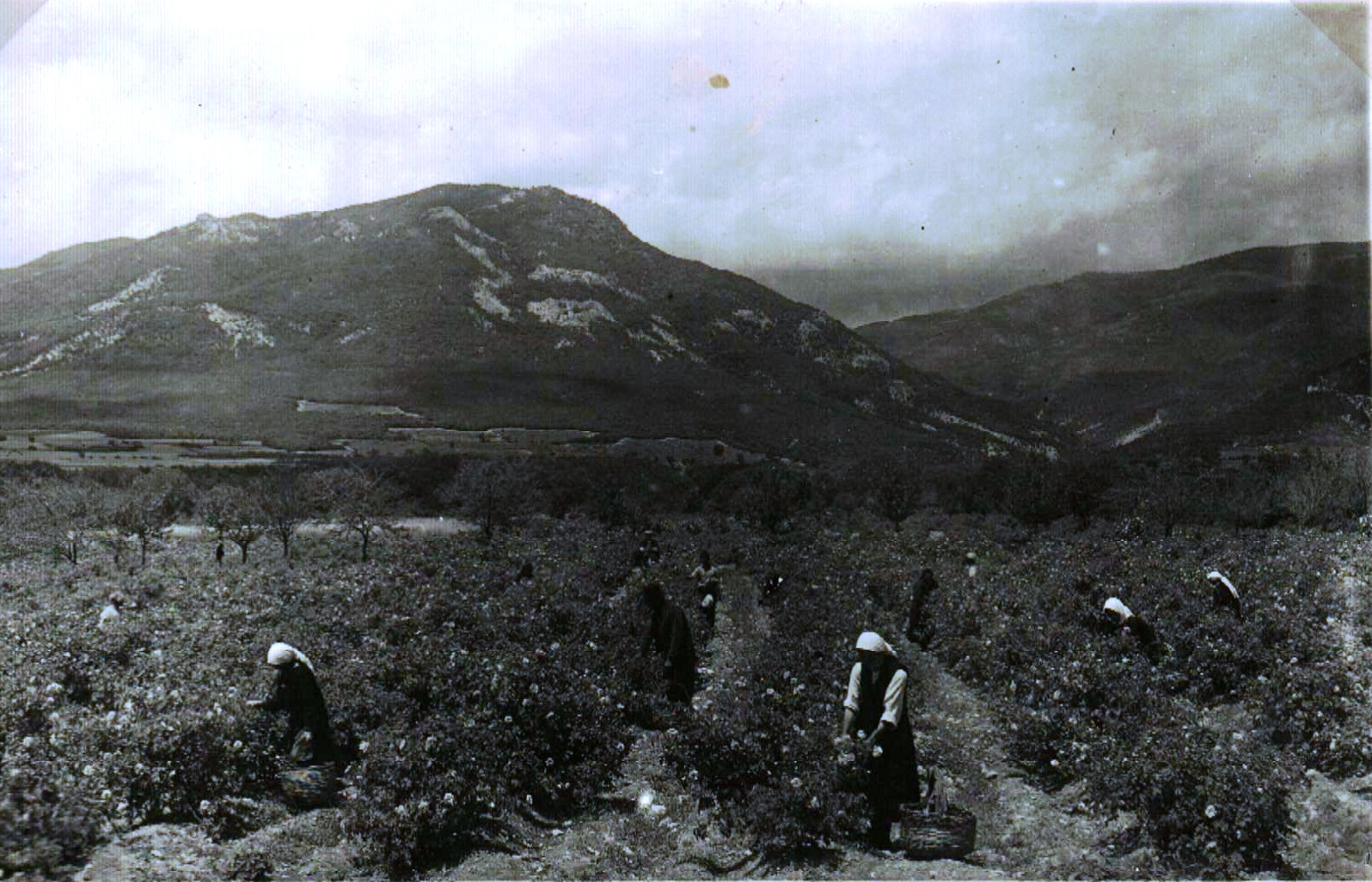 Rose harvests in Bulgaria